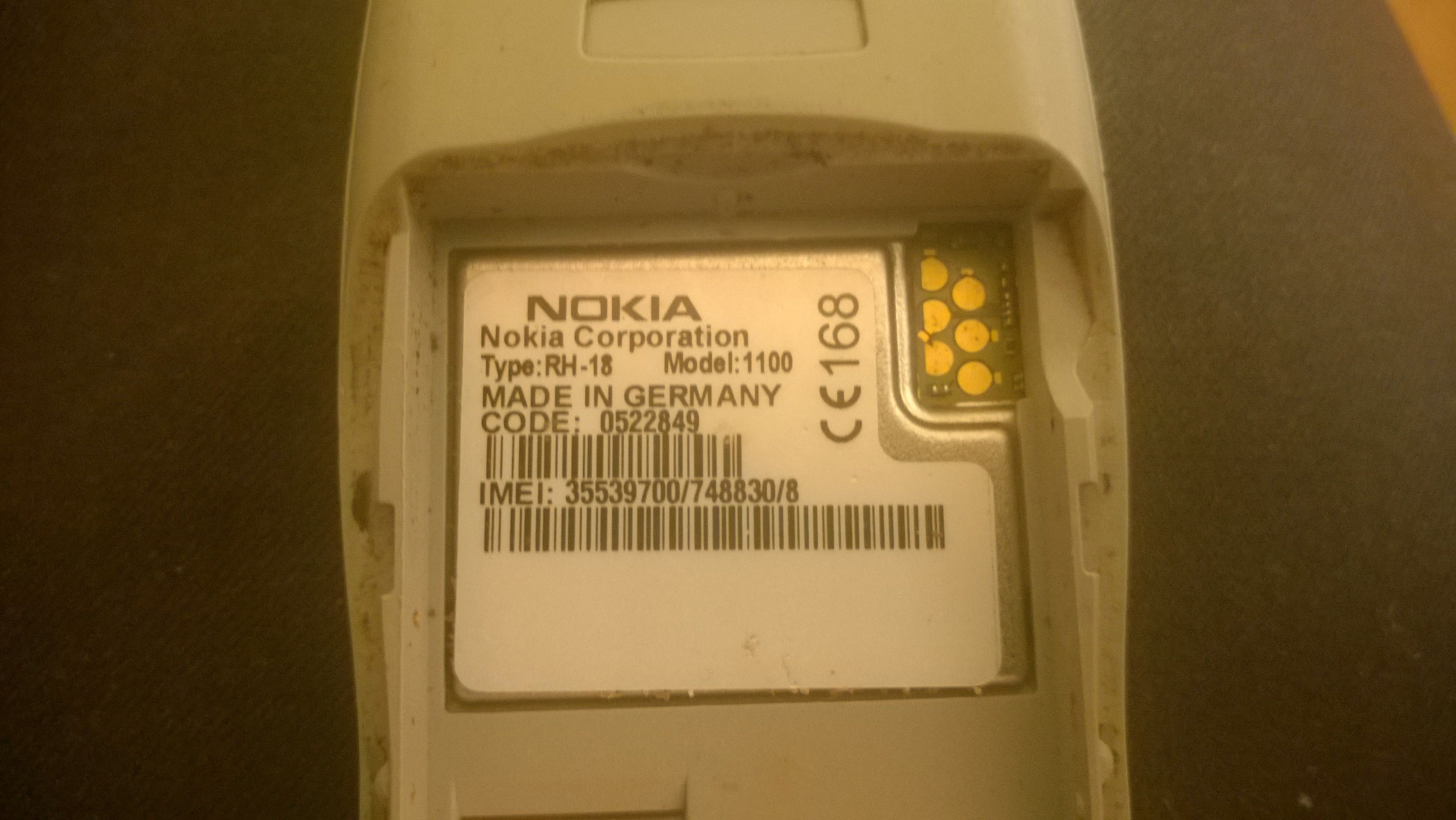 Nokia 1100 achterkant.